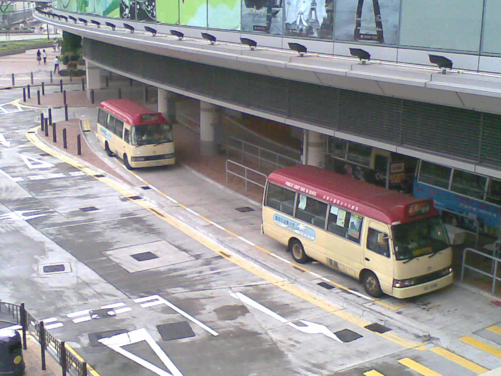 Citywalk Public Minibus Stop, Tsuen Wan, Hong Kong